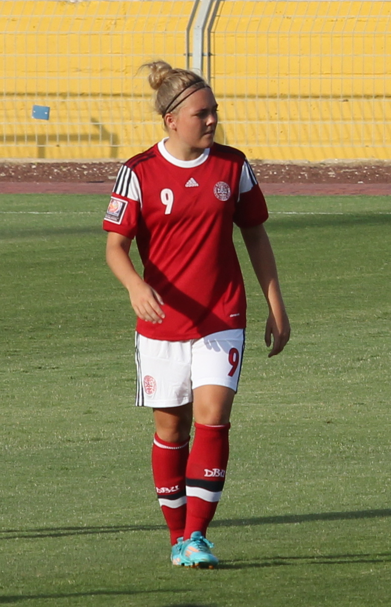 Nanna Christiansen. Israel - Denmark, 2015 FIFA Women's World Cup qualification UEFA Group 3, 19 June 2014.